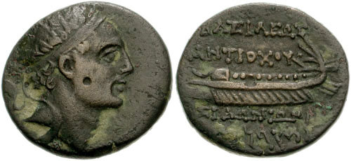 SELEUKID KINGS of SYRIA. Antiochos IV Epiphanes. 187-175 BC